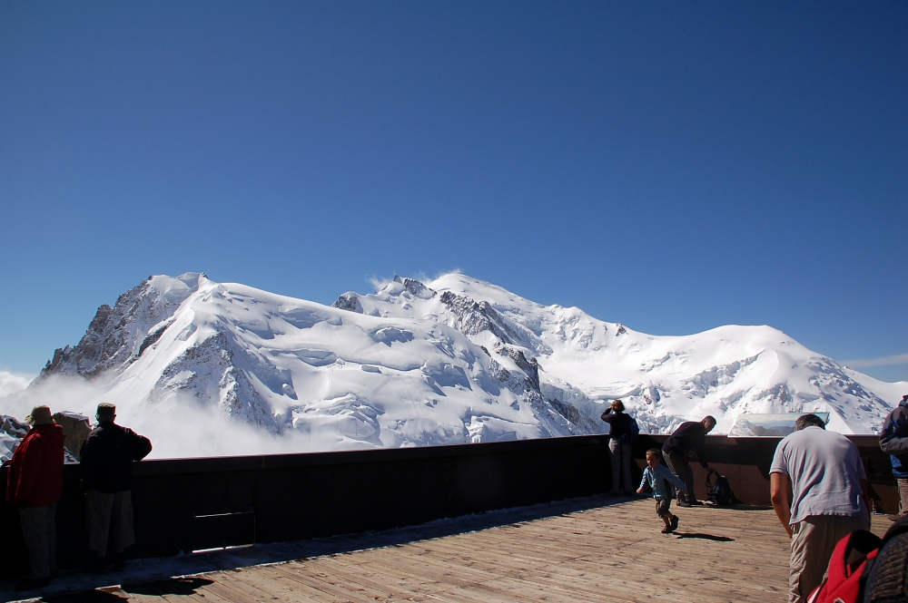 Mont Blanc, view from the mid-station of Aiguille du Midi, Haute-Savoie, France